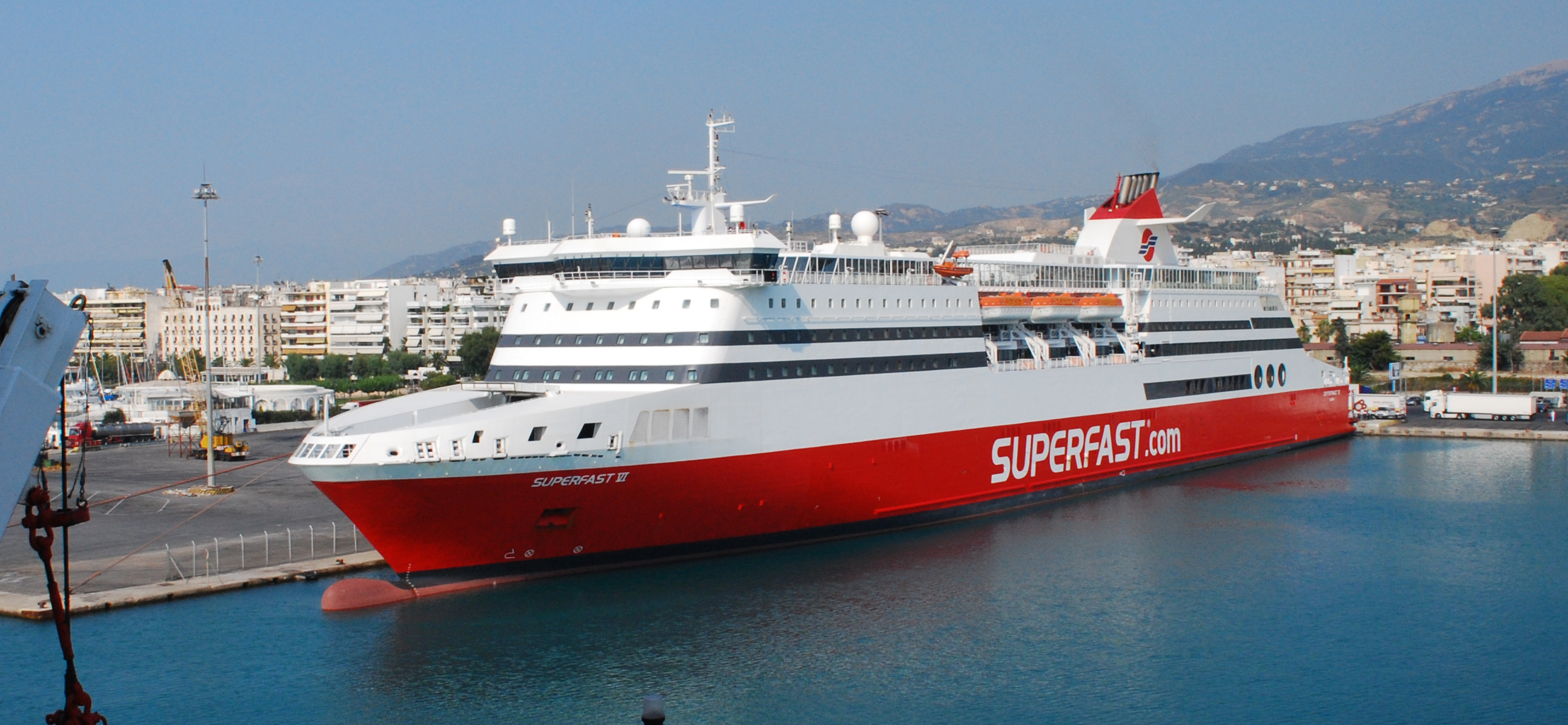 "Superfast VI" of Superfast Ferries in Patras, picture taken from "Hellenic Spirit" of ANEK Lines.